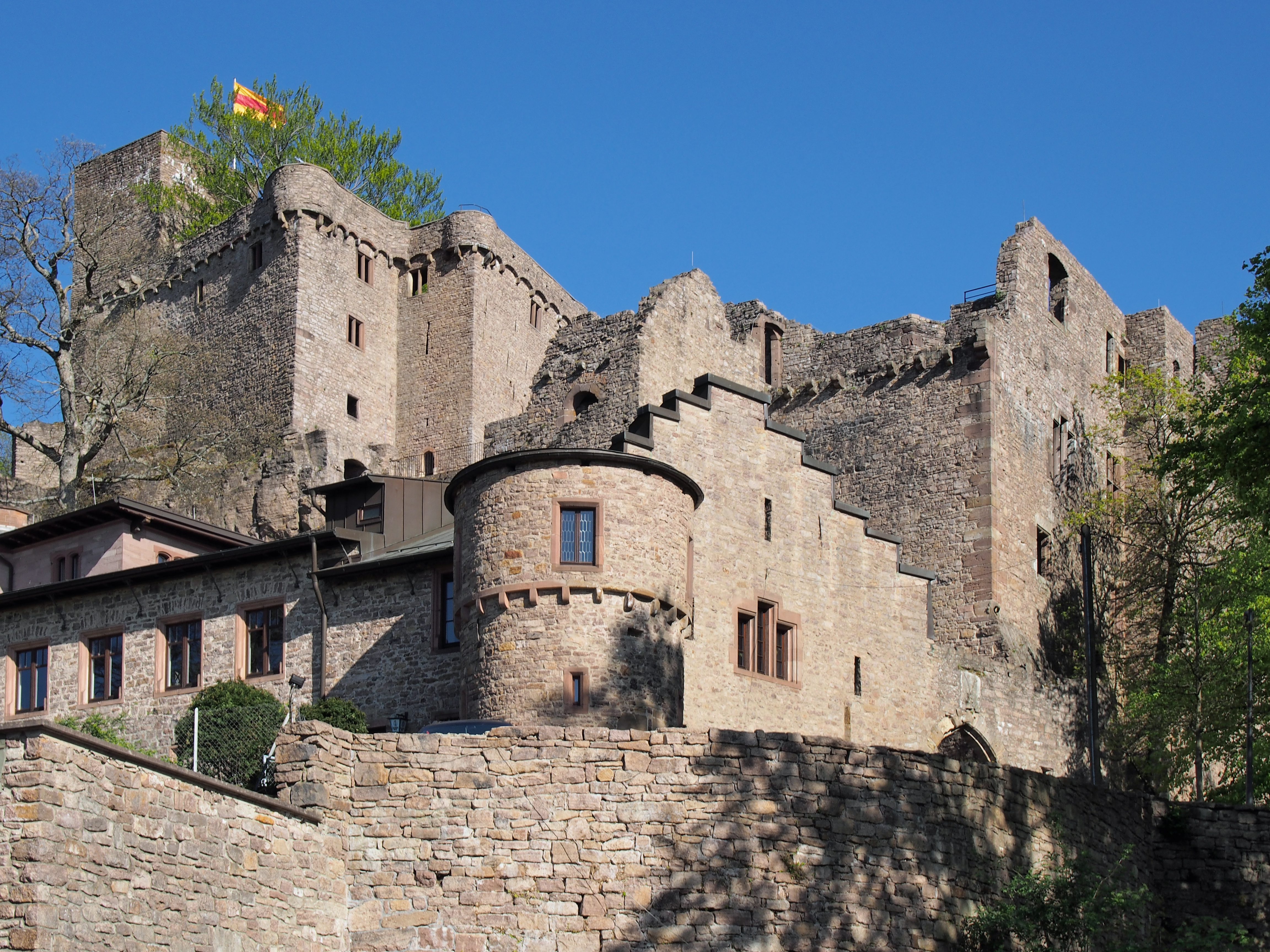 View to the Old Castle in Baden-Baden, German Federal State Baden-Württemberg.